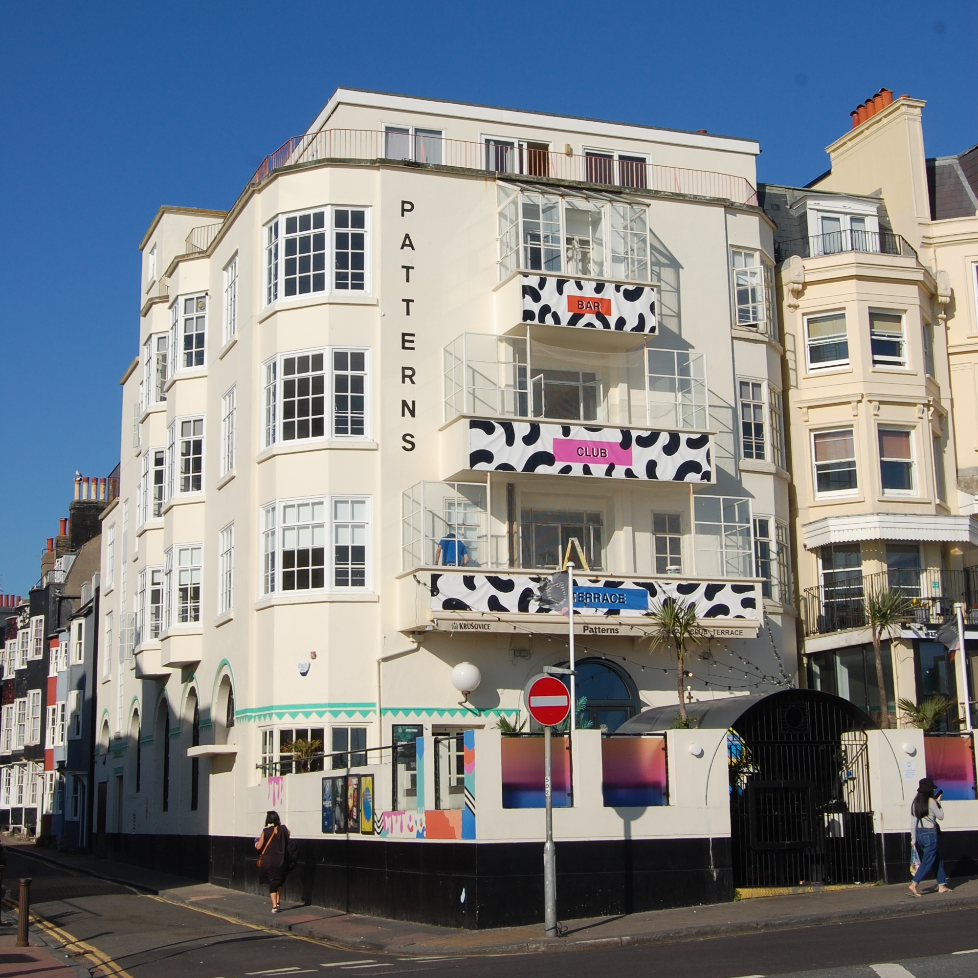 Patterns nightclub, Marine Parade, Brighton, City of Brighton and Hove, England.